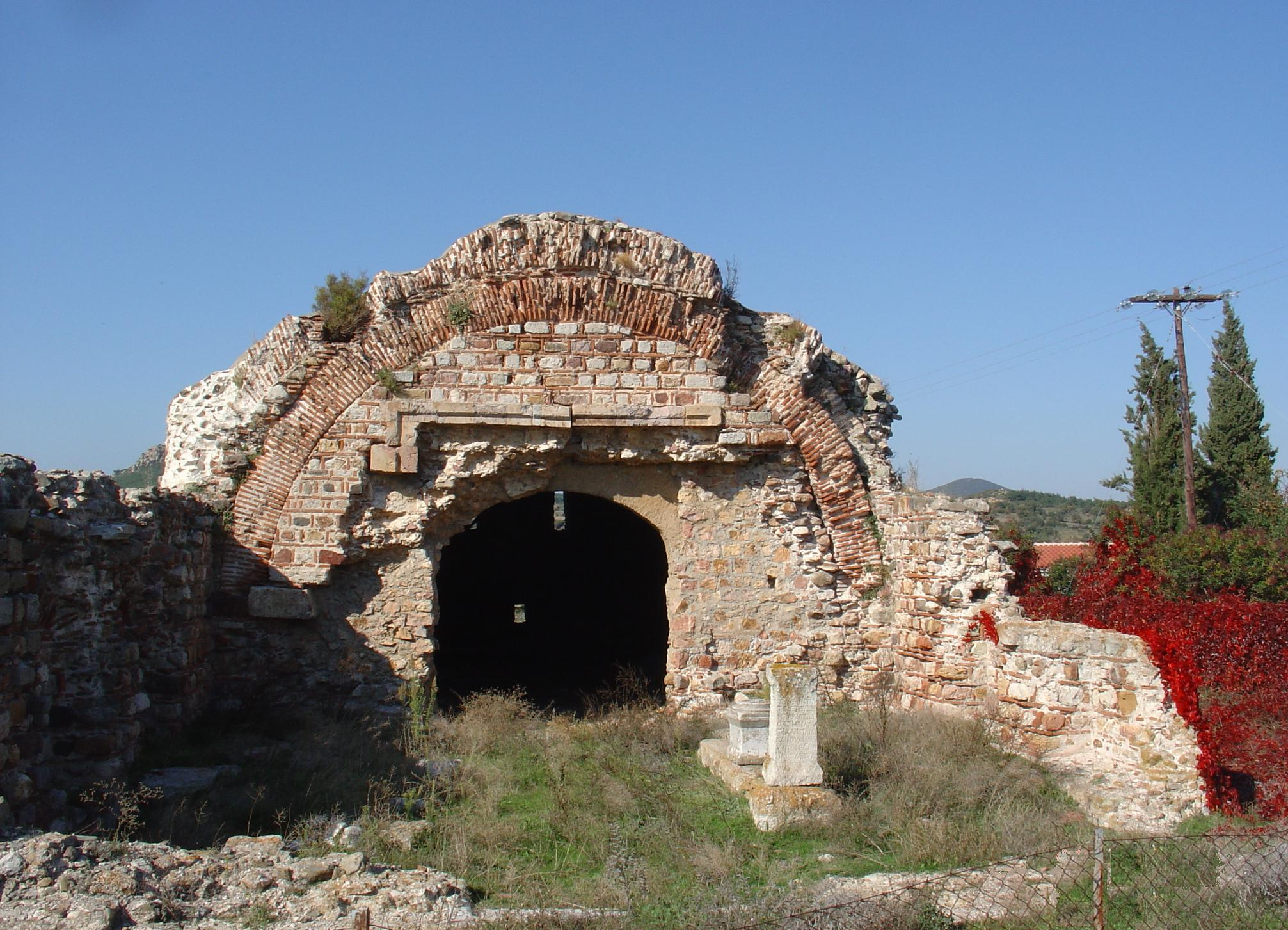 Ottoman (Evrenos Bey 1370-1390) public baths called "Hana" at Traianoupoli, Greece.